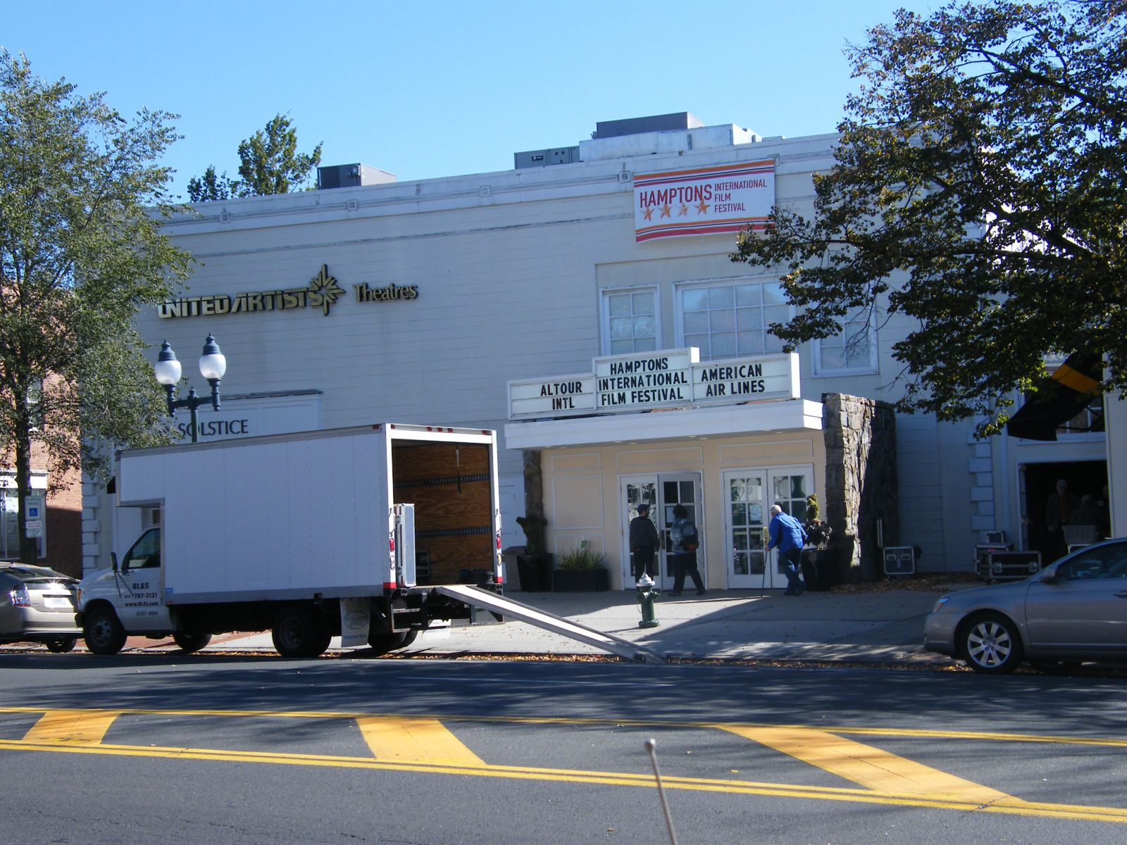 Hamptons International Film Festival in East Hampton, New York